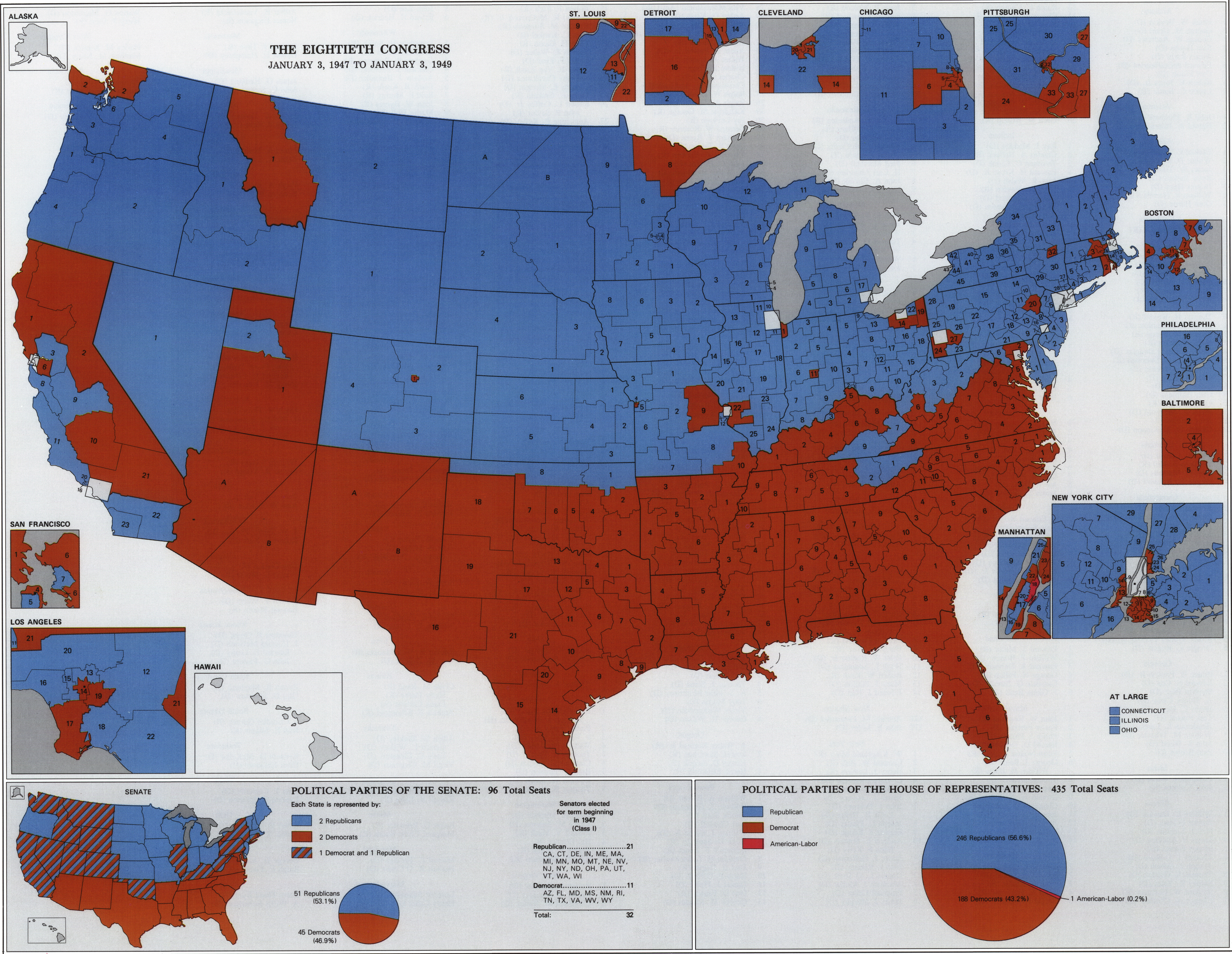 Political Parties of the Eightieth Congress (1947-1949) Kenneth C. Martis, Author The Historical Atlas of Political Parties in the United States Congress: 1789-1989, p. 201. Ruth A. Rowles, Cartographer Gyula Pauer, Production Cartographer